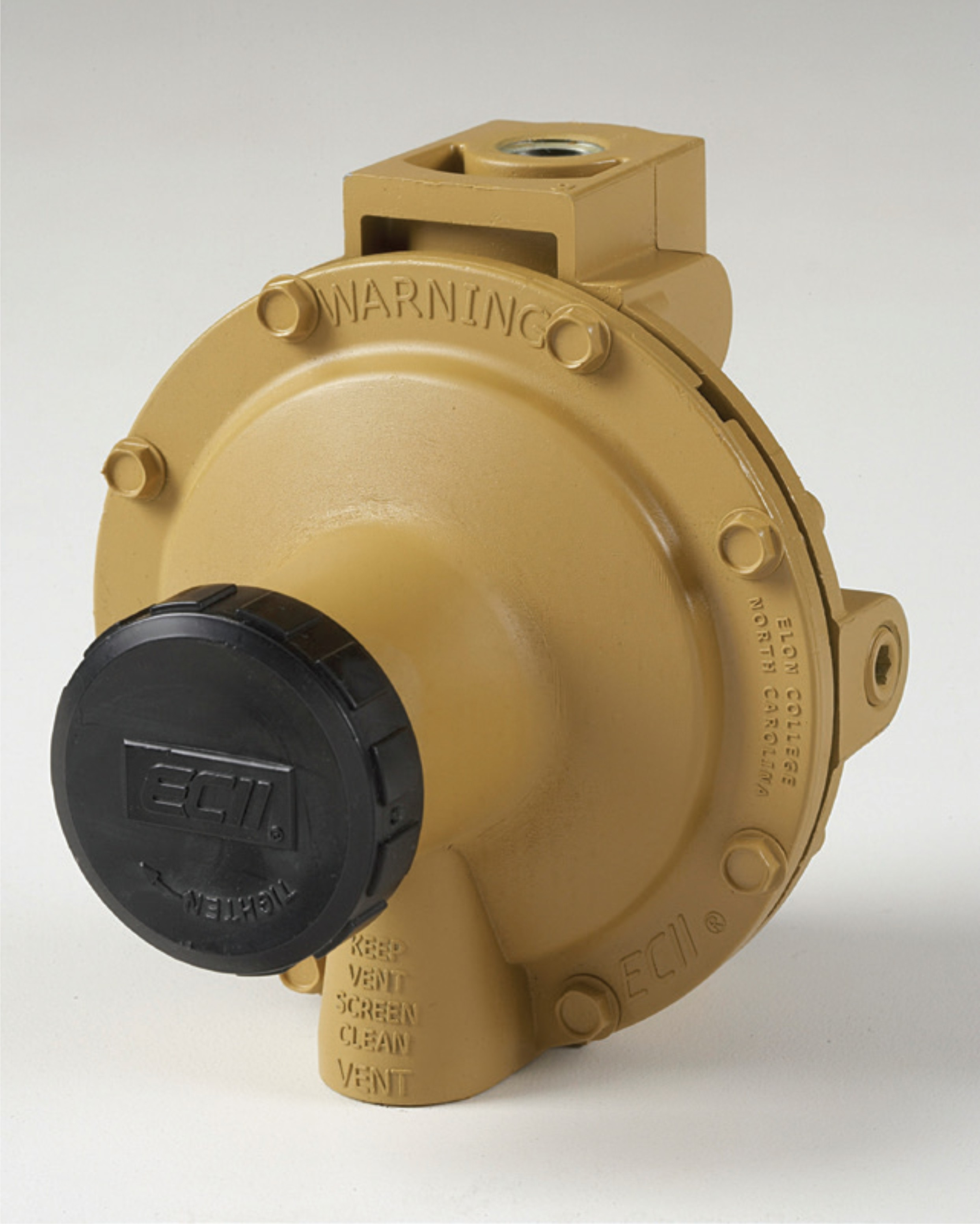 Регулятор давления СУГ первой ступени